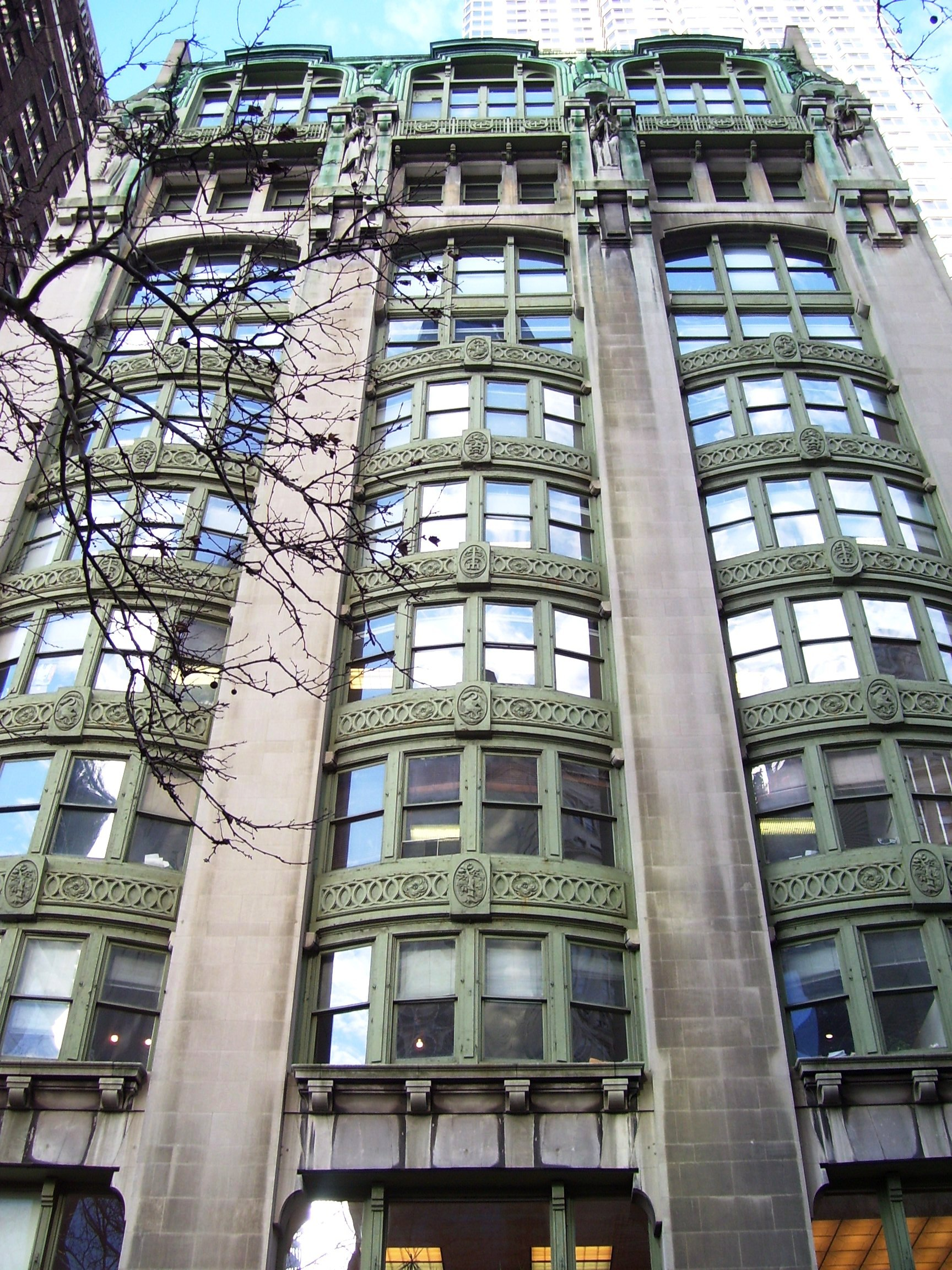 The New York Evening Post Building at 20 Vesey Street between Broadway and Church Street in the Financial District of Manhattan, New York City was built in 1906-07 and was designed by Robert D. Kohn in the Art Nouveau style. It was designated a NYC landmark on November 23, 1965 and was added to the National Register of Historic Places August 16, 1977. (Sources: Guide to NYC Landmarks (4th ed.), "NYCLPC Designation Report")